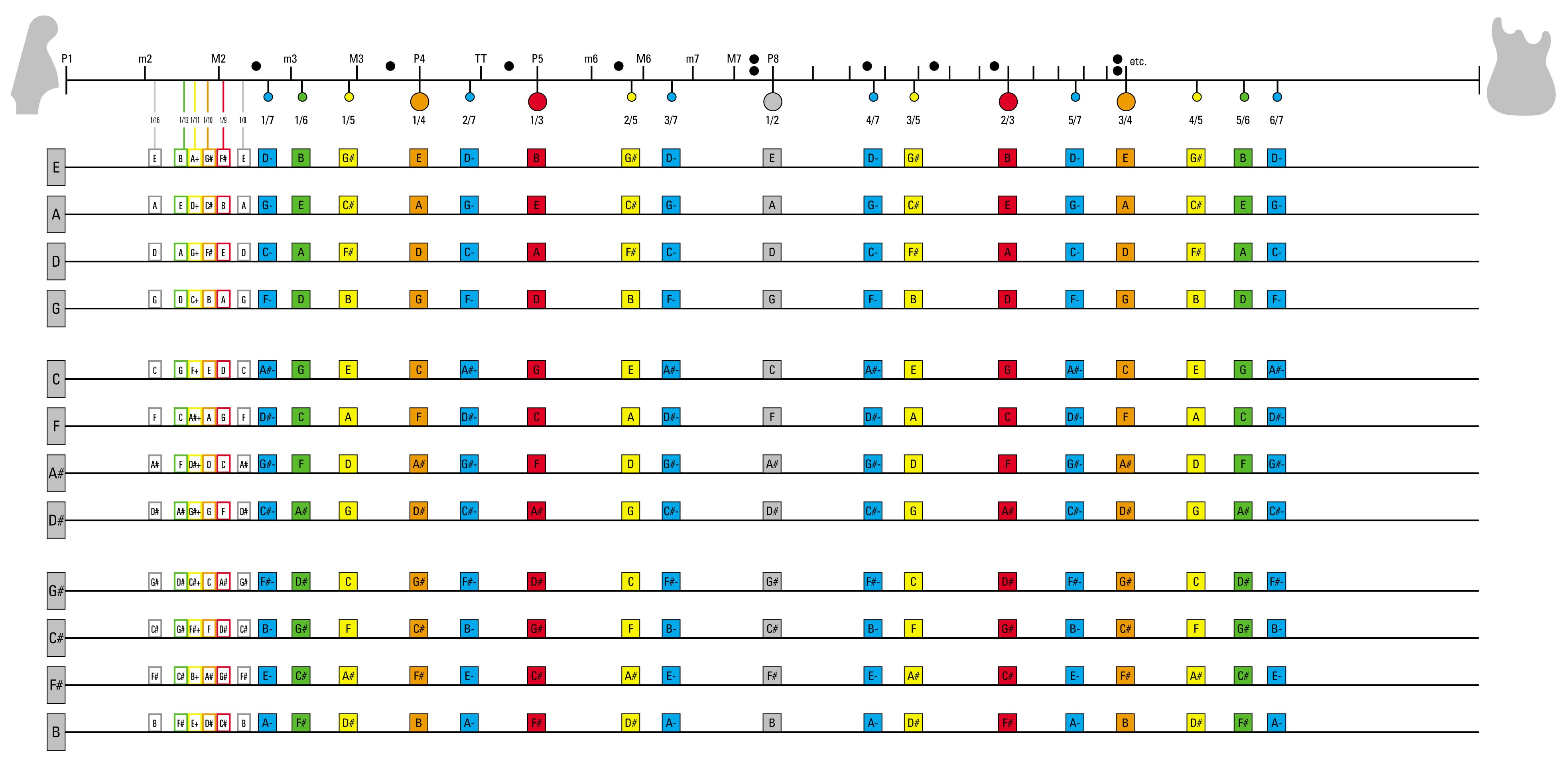 created by myself, derived from which I also created myself